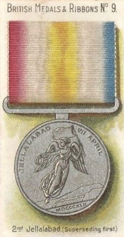 1890's cigarette card depicting the reverse of the Jellalabad Medal (2nd version). Awarded for the siege of Jellalabad, first Afghan War, 1842.